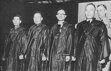 Ryukyuan Court Judge (Court of Appeals)